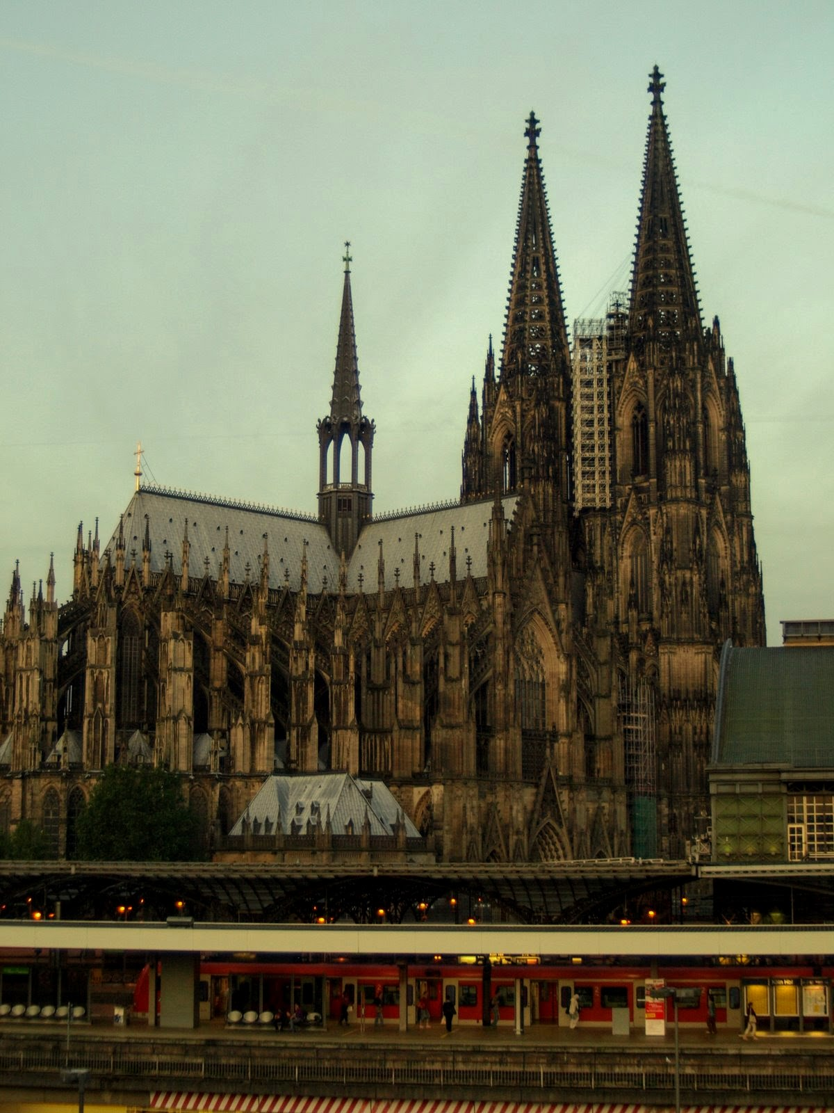 General view of Cologne Cathedral (Germany).